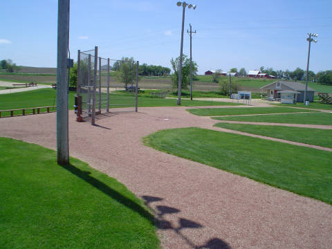 This is the baseball field featured from the 1989 movie Field of Dreams. This photo shows the field as seen from the bleachers that Kevin Costner's character Ray Kinsella built at the beginning of the movie.